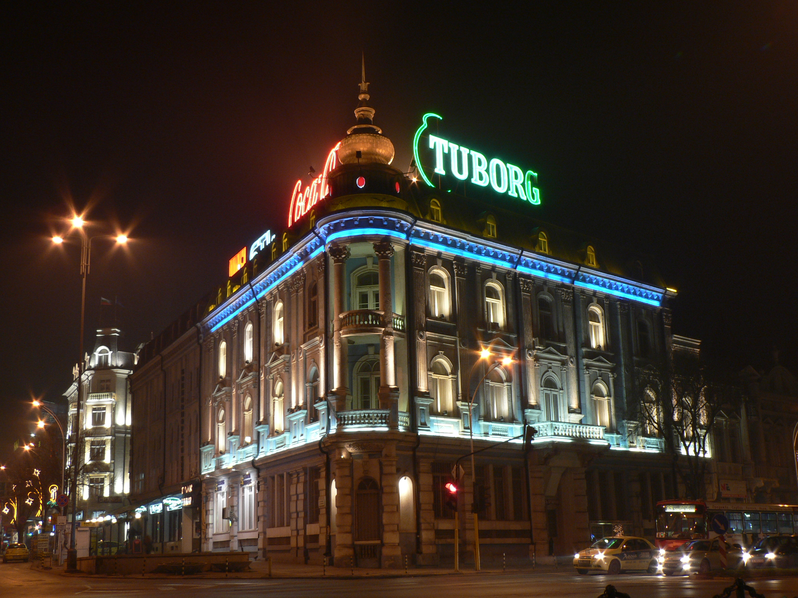 Varna-Bulgaria-Dian Dimitrov uploud